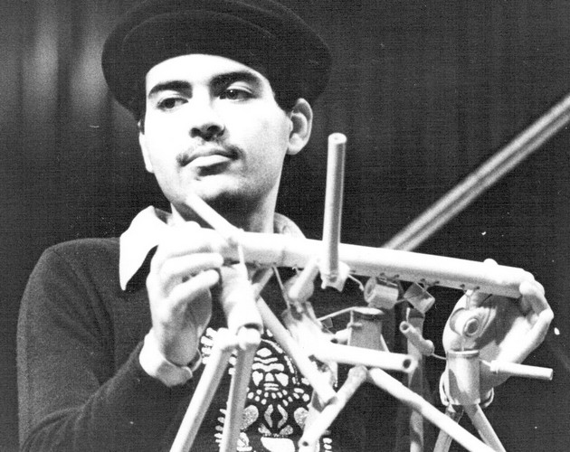 Puerto Rican pianist Hilton Ruiz in Paris, France